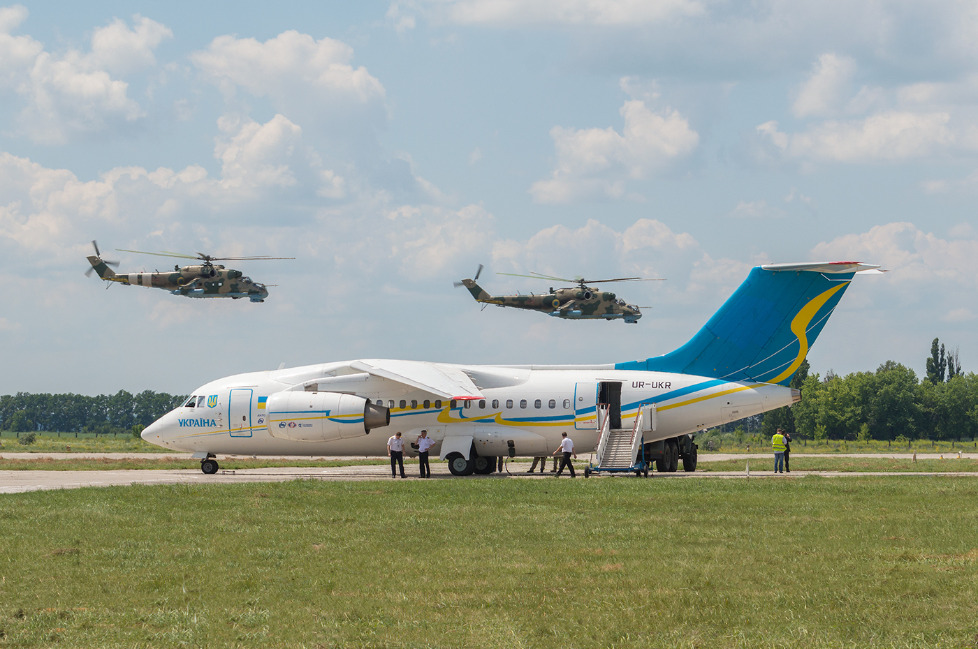 Pair of Ukrainian AF Mil Mi-24P flying over Ukrainian Govt An-148-100V at Chuguyev